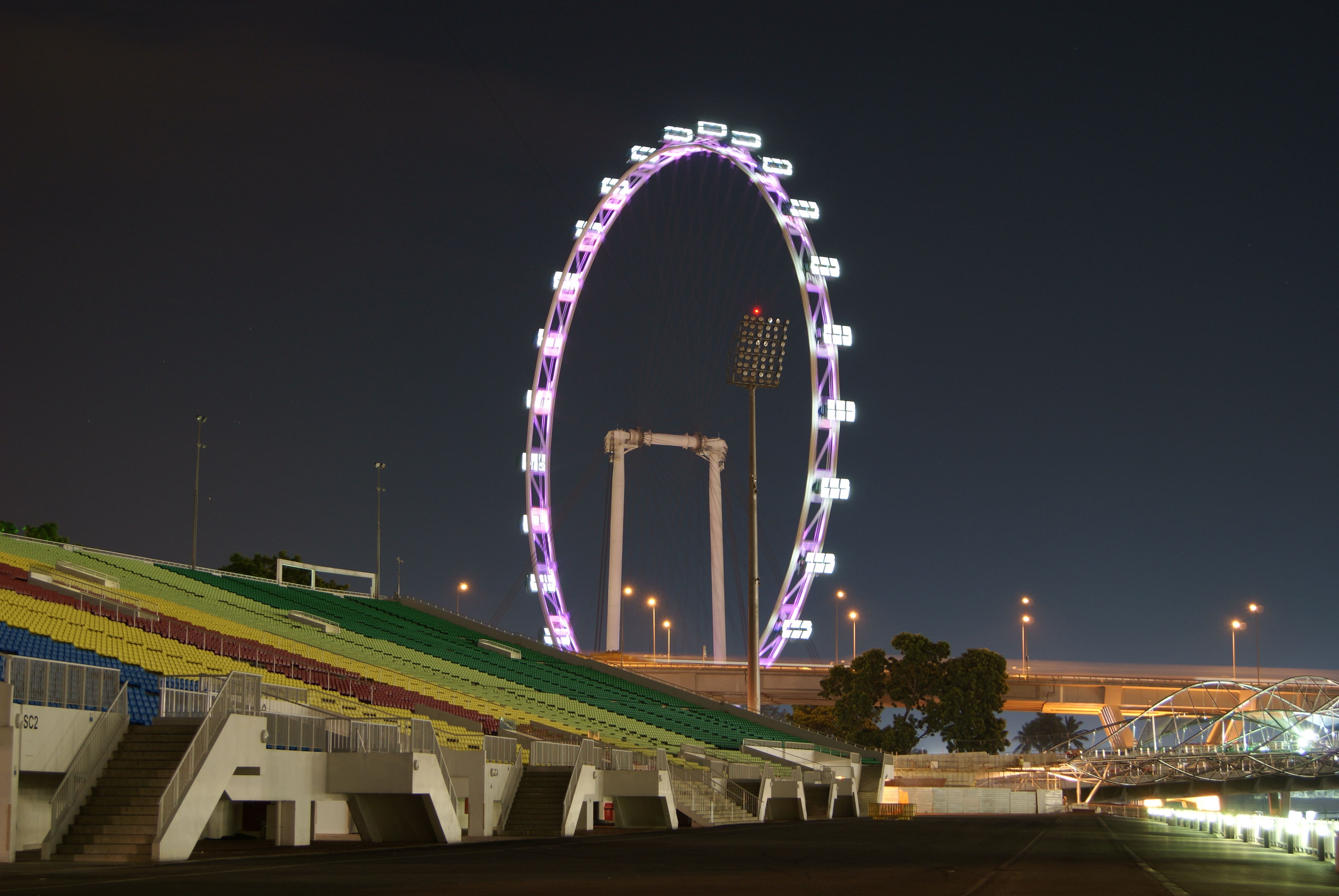 The Singapore Flyer at night with white lighting on the capsules.